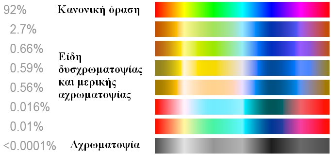 A comparison of the visible color spectrum in common types of color blindness.